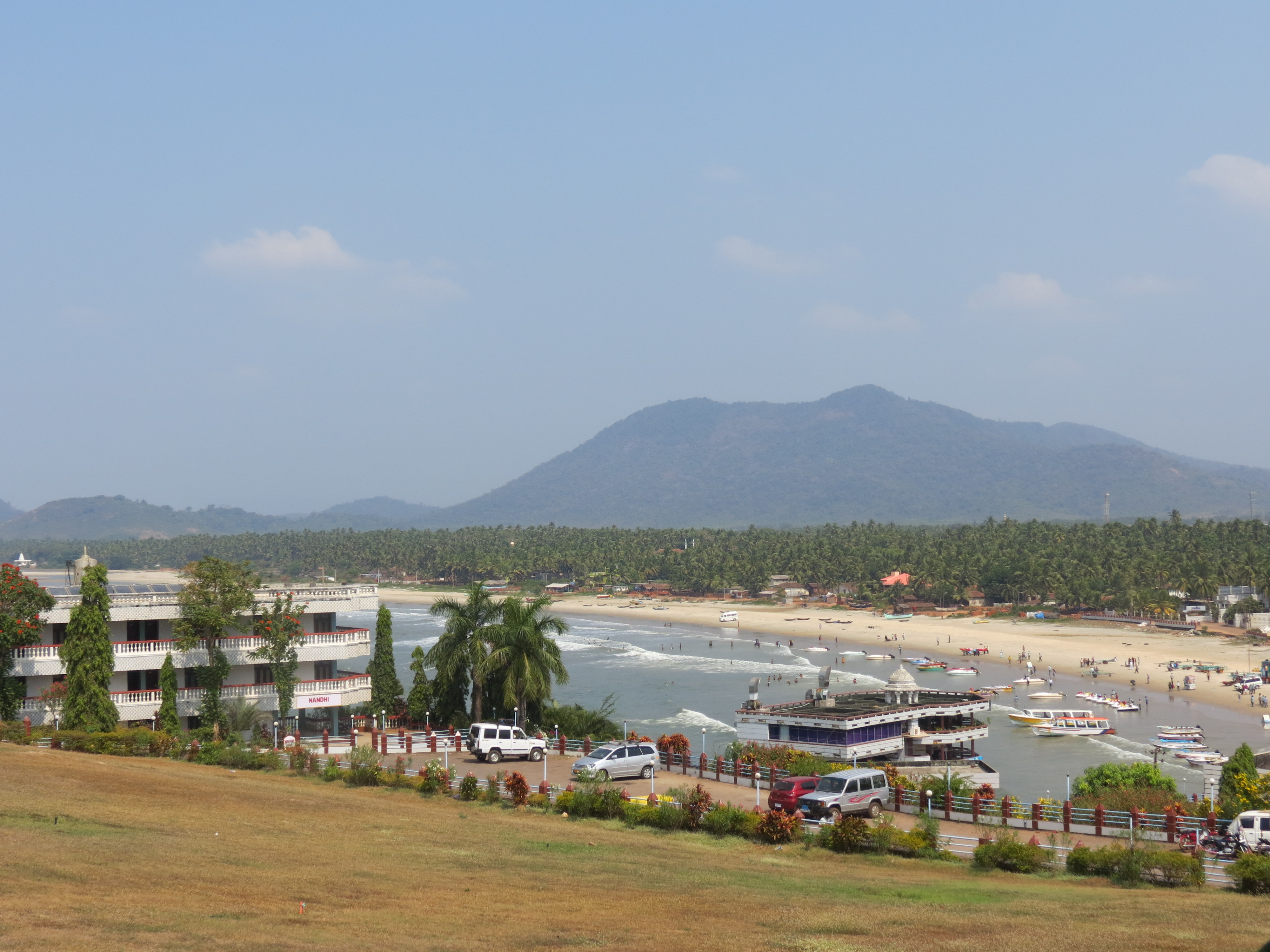 Murudeshwar